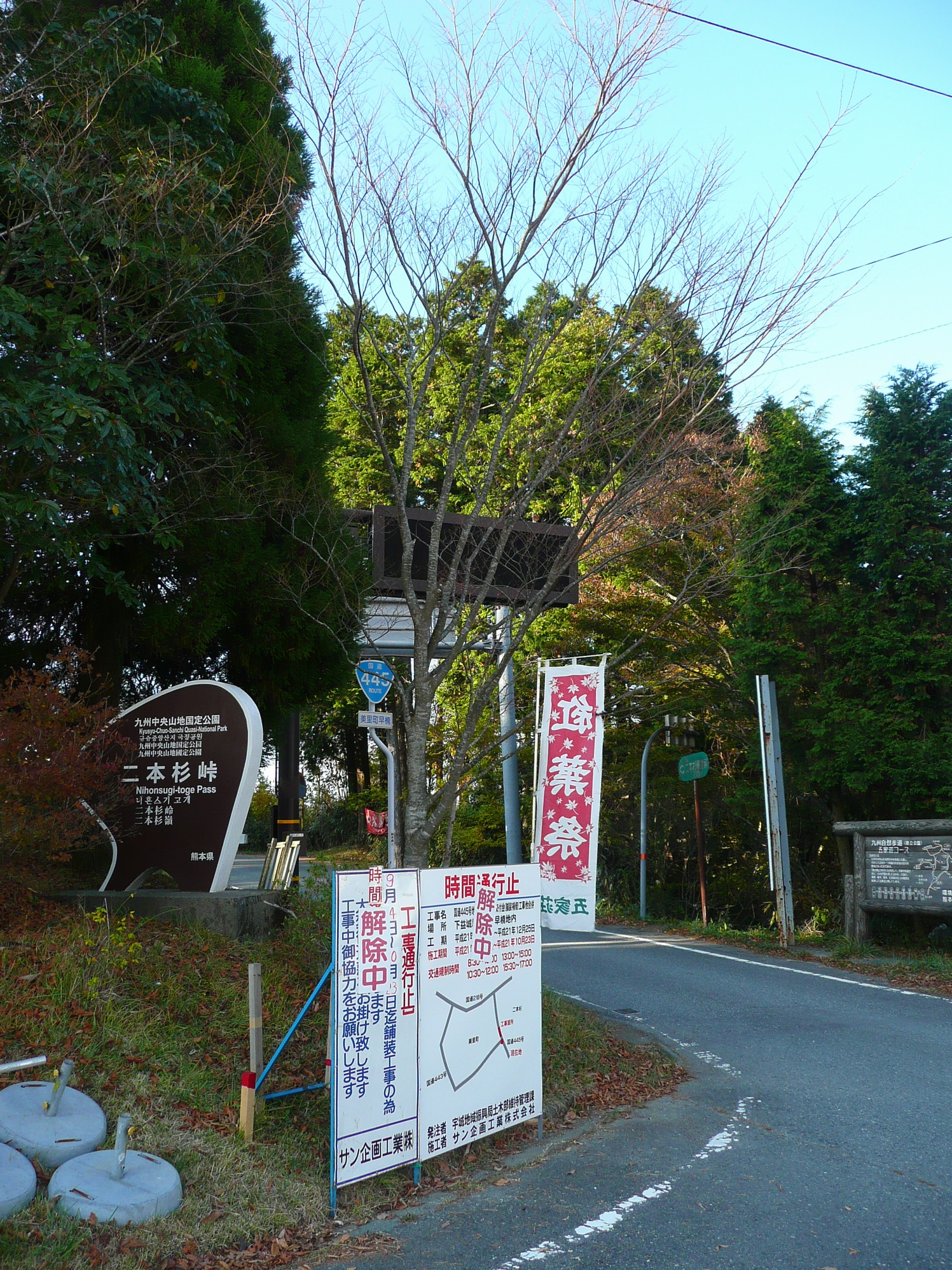 Nihon-sugi Pass - National Route 445 (Misato Town, Kumamoto Prefecture, Japan)